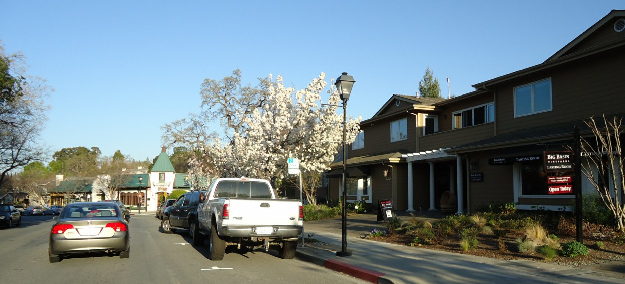 Saratoga, California, street scene.